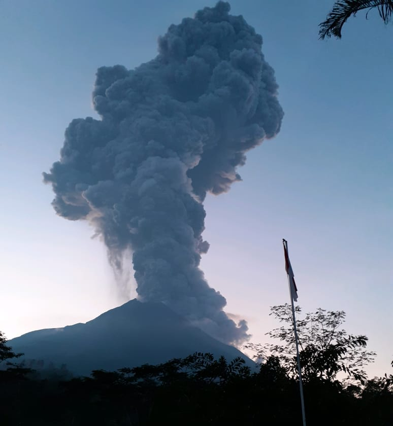 An eruption was recorded on Mount Merapi on the morning of 3rd of March, 2020, sending ash as high as 5,000 meters to the sky. Surakarta's Adi Soemarmo Airport had to be closed due to the eruption.